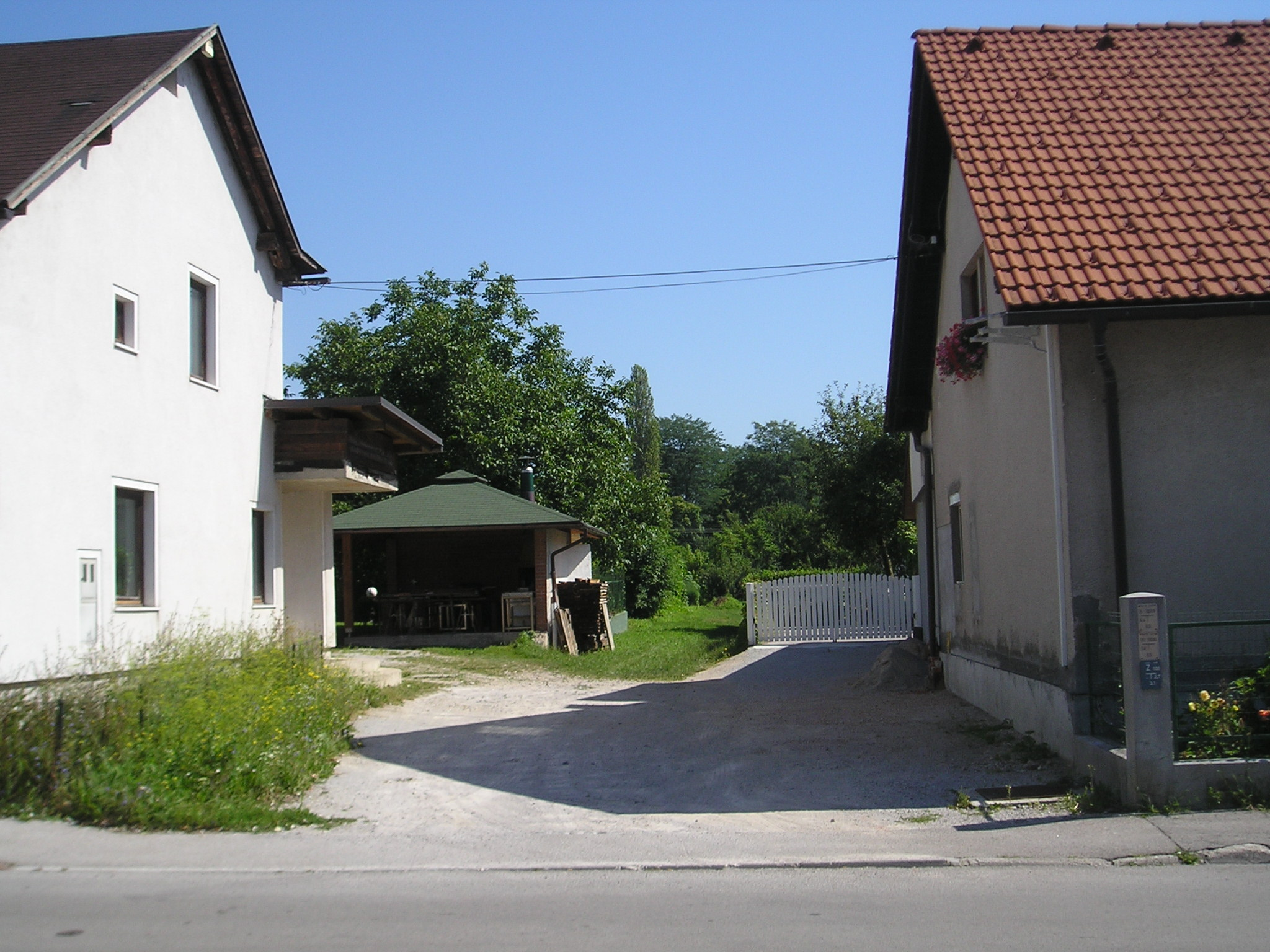 Route of Vodmat railway avoiding line still visible (looking NE-wards from Pod Ježami), from the Pod ježami street, between Ribniška ulica and Na klančku